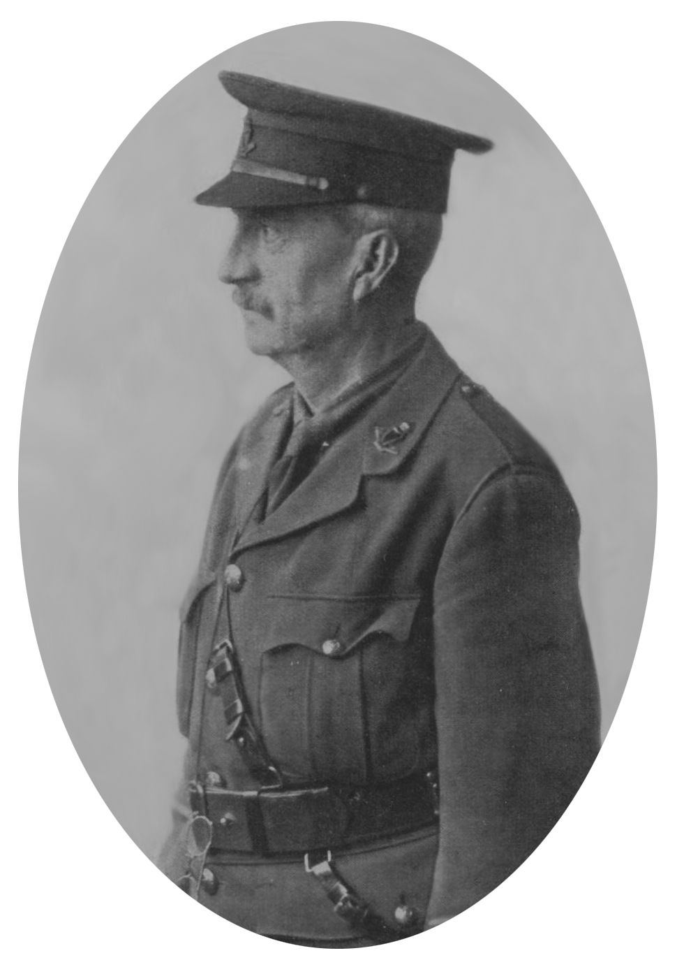 Major Willie Redmond (1861-1917), MP, in a photograph published following his death in the First World War.